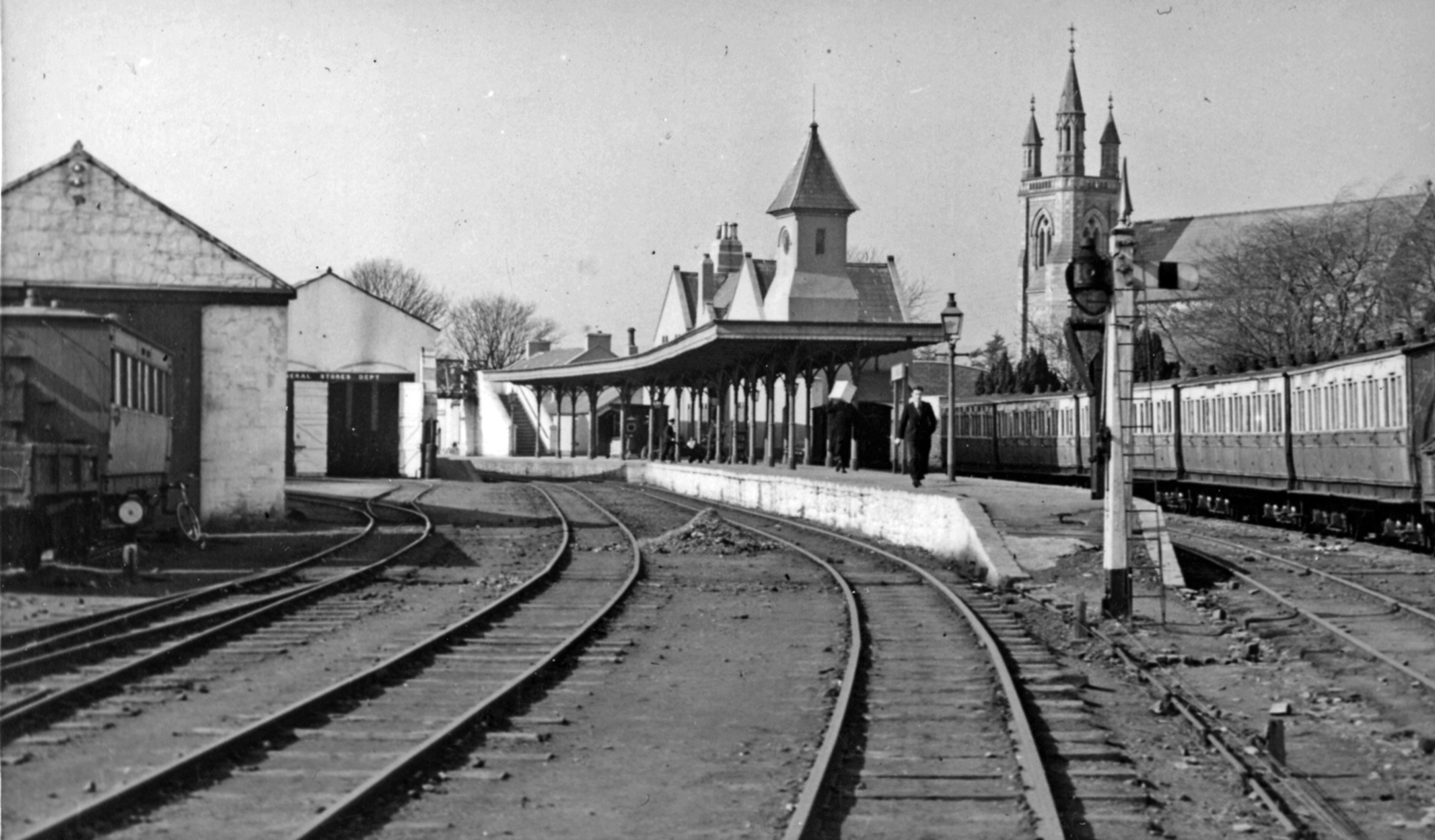 Stranorlar station, County Donegal Railways Joint Committee, 1948View SW, towards Donegal and Killybegs, also west to Glenties on the joint 3-ft. gauge lines from Strabane and Londonderry. The trains on the CDJ system were worked by Diesel-cars even back in 1948, but were closed by about 1960.